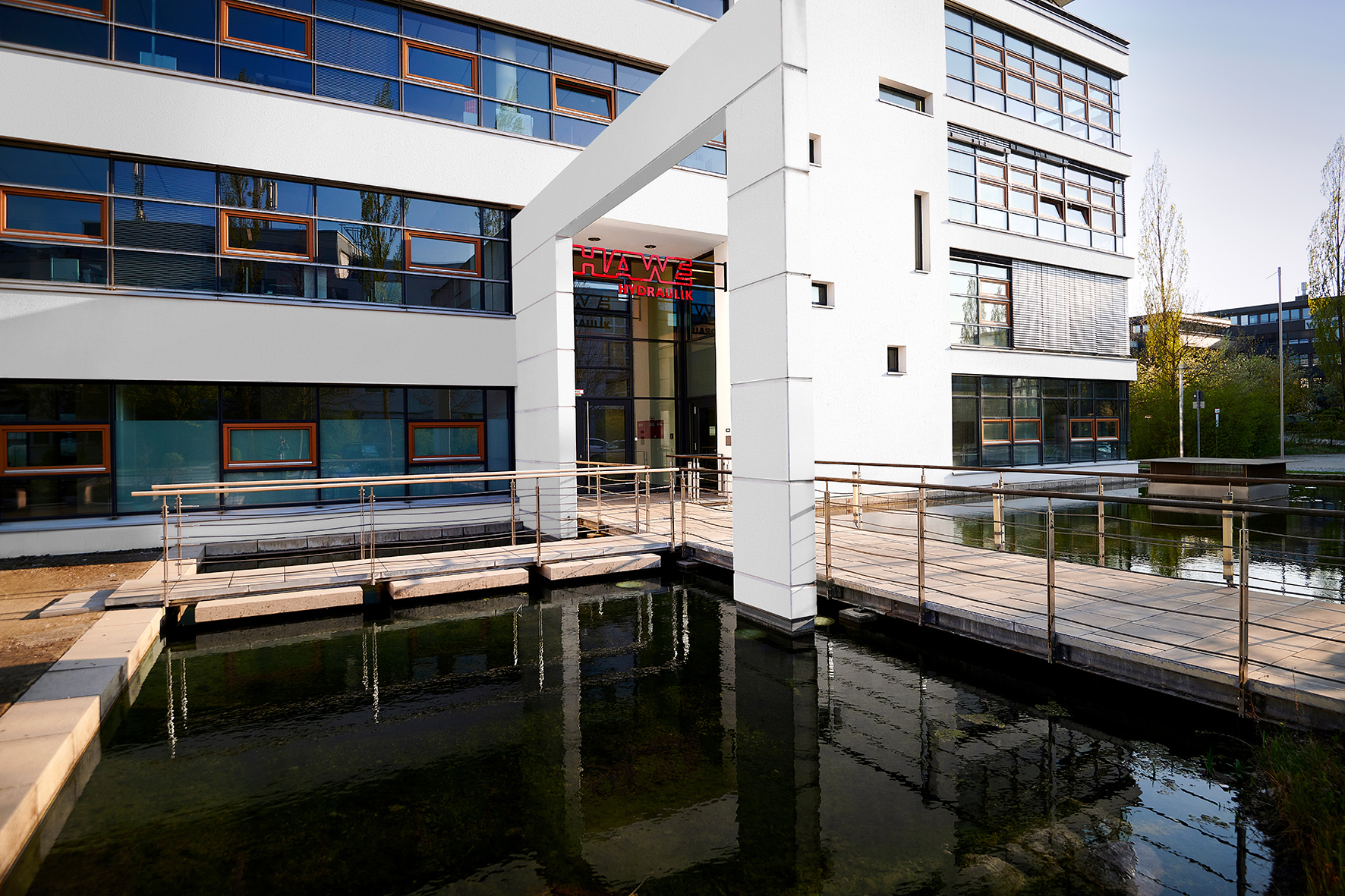 Headquarters of HAWE Hydraulik SE in Aschheim / Munich